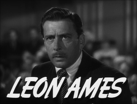 Cropped screenshot of Leon Ames from the trailer for the film The Postman Always Rings Twice.